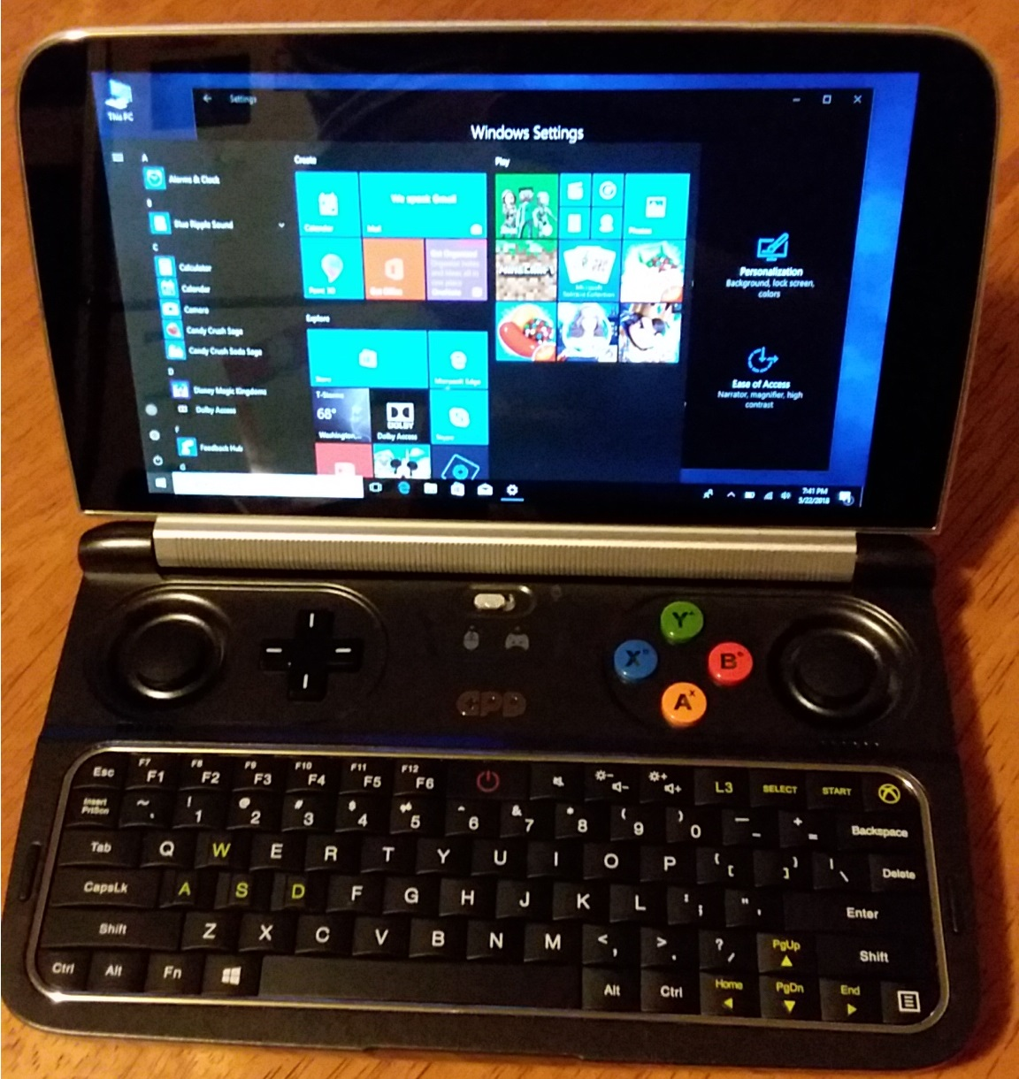 GPD Win 2-face view